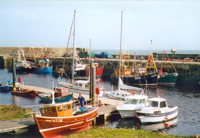 The harbour at Helmsdale. The harbour at Helmsdale is probably the best haven for boats on the rather exposed coast between Wick and the Dornoch Firth.